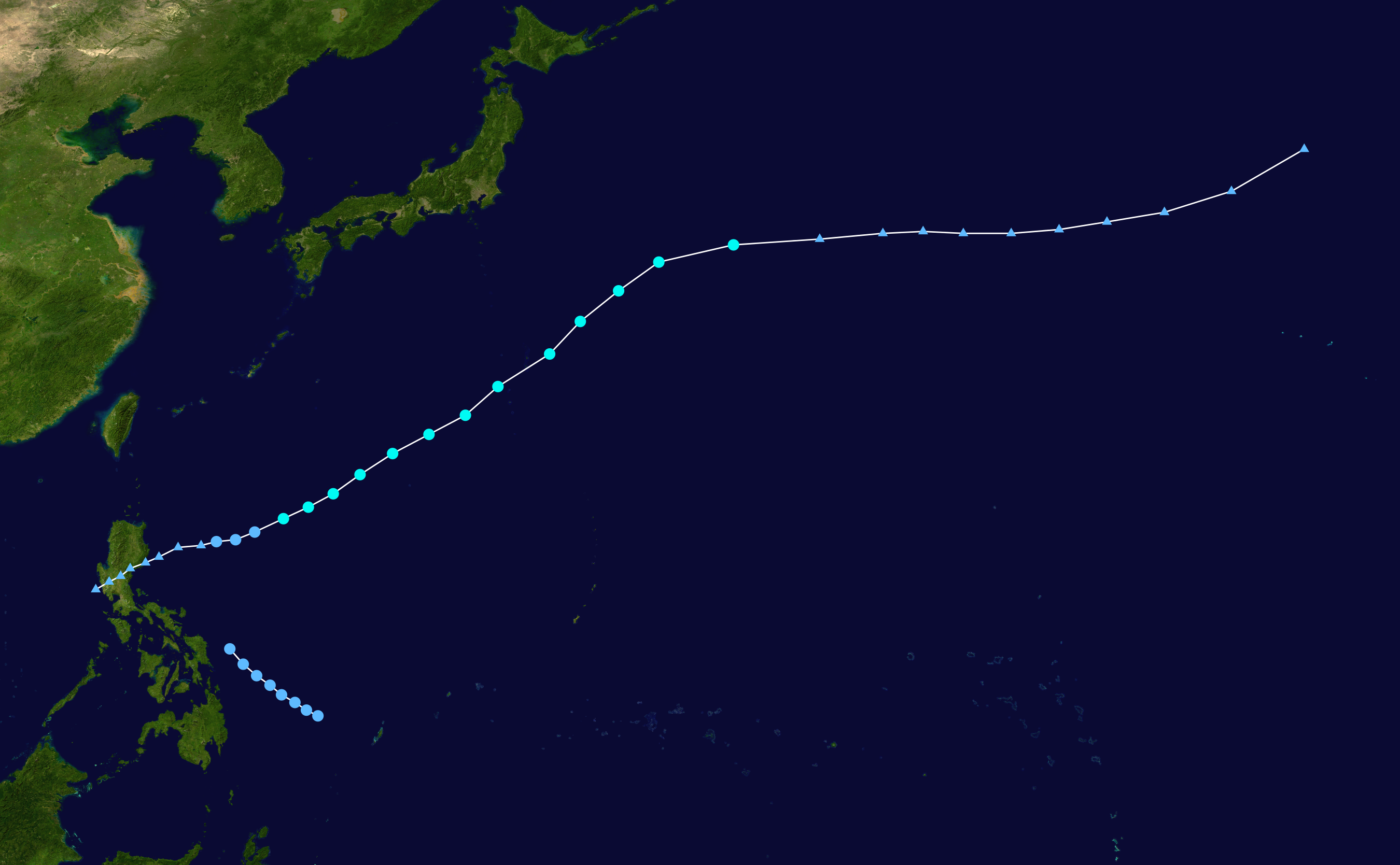 Track map of Tropical Storm Lucille of the 1960 Pacific typhoon season. The points show the location of the storm at 6-hour intervals. The colour represents the storm's maximum sustained wind speeds as classified in the Saffir–Simpson hurricane wind scale (see below), and the shape of the data points represent the nature of the storm, according to the legend below. Saffir–Simpson hurricane wind scale Tropical depression≤38 mph≤62 km/h Category 3111–129 mph178–208 km/h Tropical storm39–73 mph63–118 km/h Category 4130–156 mph209–251 km/h Category 174–95 mph119–153 km/h Category 5≥157 mph≥252 km/h Category 296–110 mph154–177 km/h Unknown Storm typeTropical cycloneSubtropical cycloneExtratropical cyclone / Remnant low / Tropical disturbance